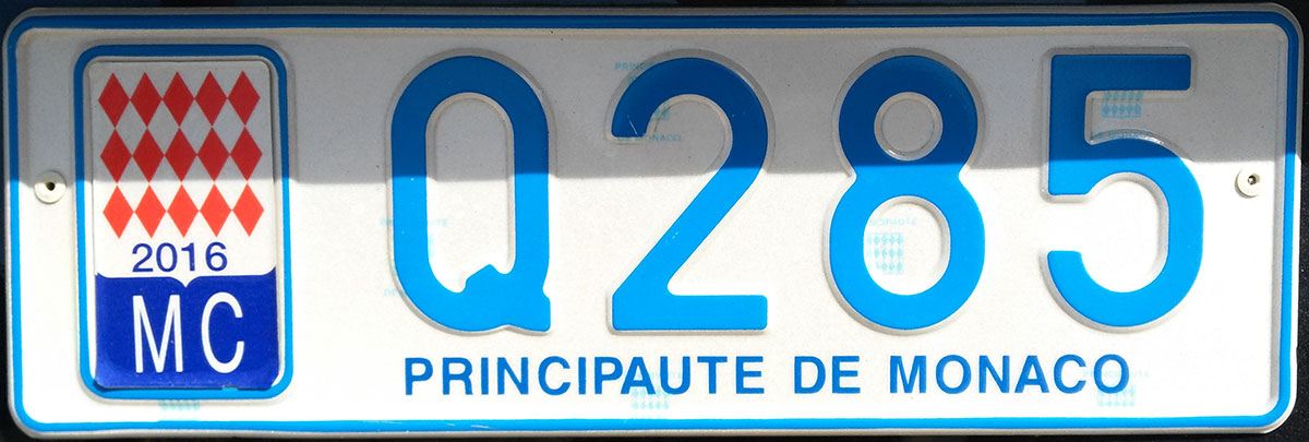 License plate of Monaco